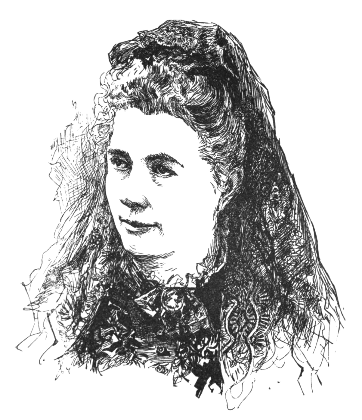 Portrait of Mary Louise Booth, in Successful Women (1888) by Sarah K. Bolton